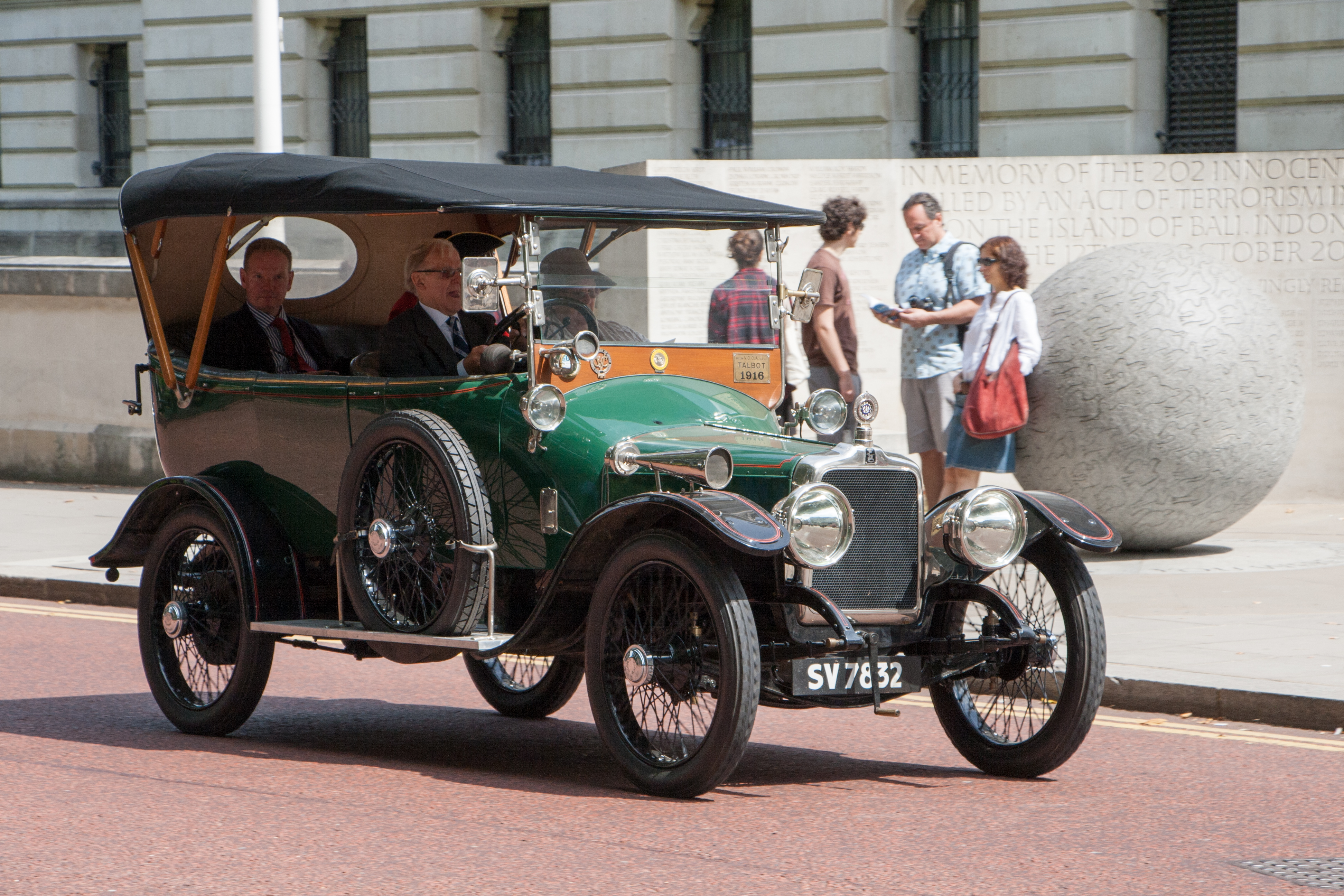 1916 Talbot 12 Colonial Tourer chassis No.: 7424 ~ engine No.: 254-cylinders, 2409 ccWorld War I memorial car parade